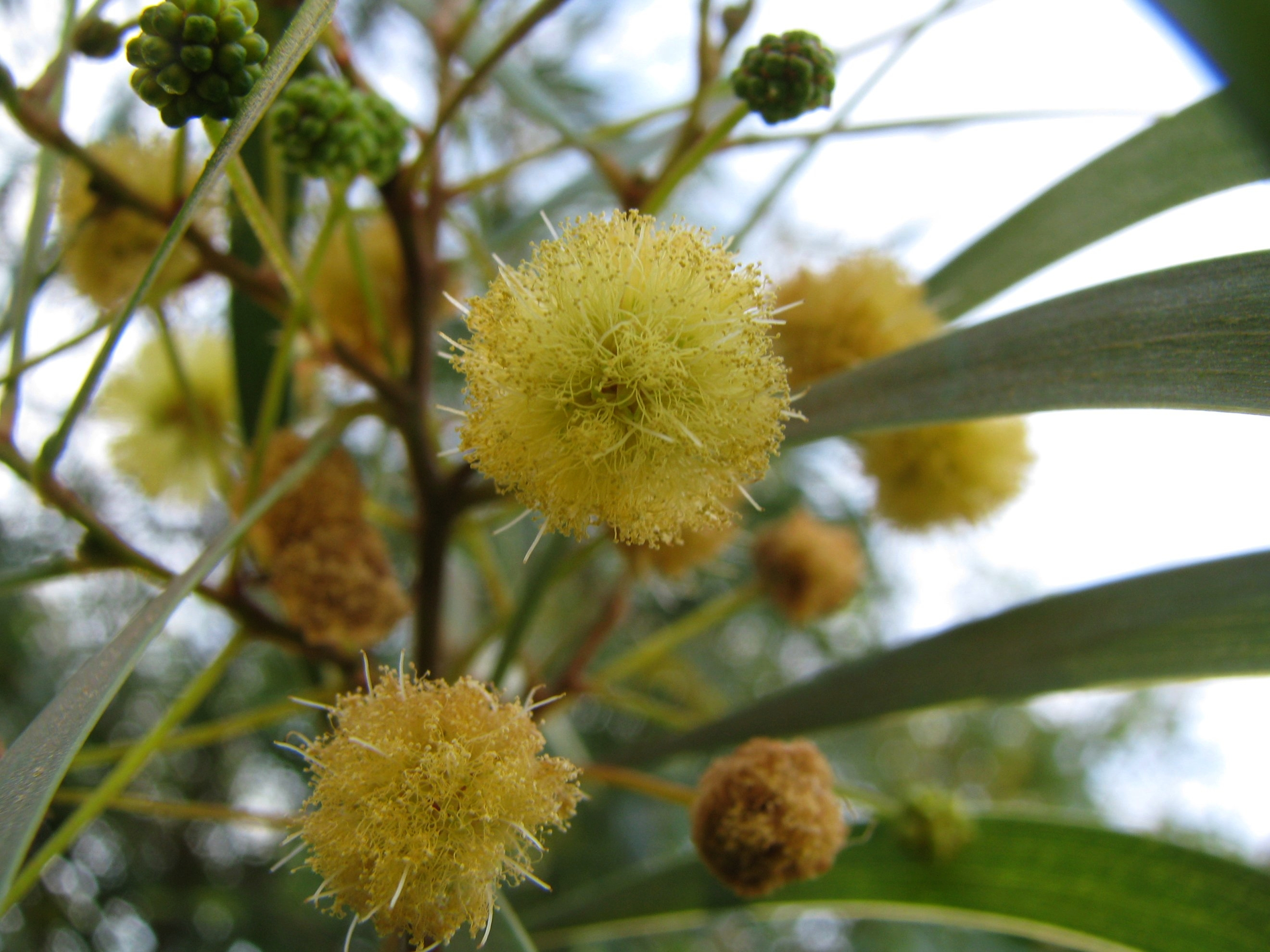 Koaiʻa, Koaiʻe, or Dwarf koa Fabaceae Endemic to the Hawaiian Islands Vulnerable Oʻahu (Cultivated); Maui origin The dense reddish brown wood is harder than koa and was used by early Hawaiians for short spears (ihe), long spears (pololū), fish lures (lāʻau melomelo), shark hooks (makau manō) with bone points, bait sticks in fishing, fancy paddles (hoe), house (hale) construction, ʻukēkē (musical bow), calabashes (ʻumeke), and the ʻiʻe kūkū --the final beater to smooth out the kapa. Koaiʻa was not used for making canoes (waʻa) because it produced curly grained wood. The crushed koaiʻa leaves were mixed with other plant materials and used in a steam bath for skin disorders. One older source (Charles Gaudichaud,1819) states that Hawaiians "used all fragrant plants, all flowers and even colored fruits" for lei making. The red or yellow were indicative of divine and chiefly rank; the purple flowers and fruit, or with fragrance, were associated with divinity. Because of their long-standing place in oral tradition, the leaves and flowers of koaiʻa were likely used for lei making by early Hawaiians, even though there are no written sources. NPH00012